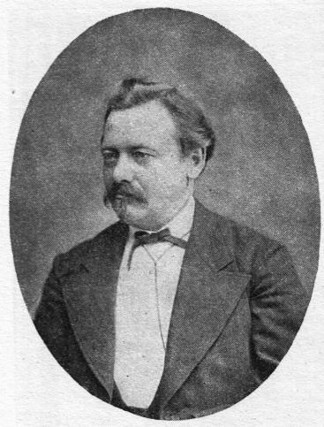 Photograph of the Finnish lawyer and composer Henrik Gustaf Borenius (1840–1909).